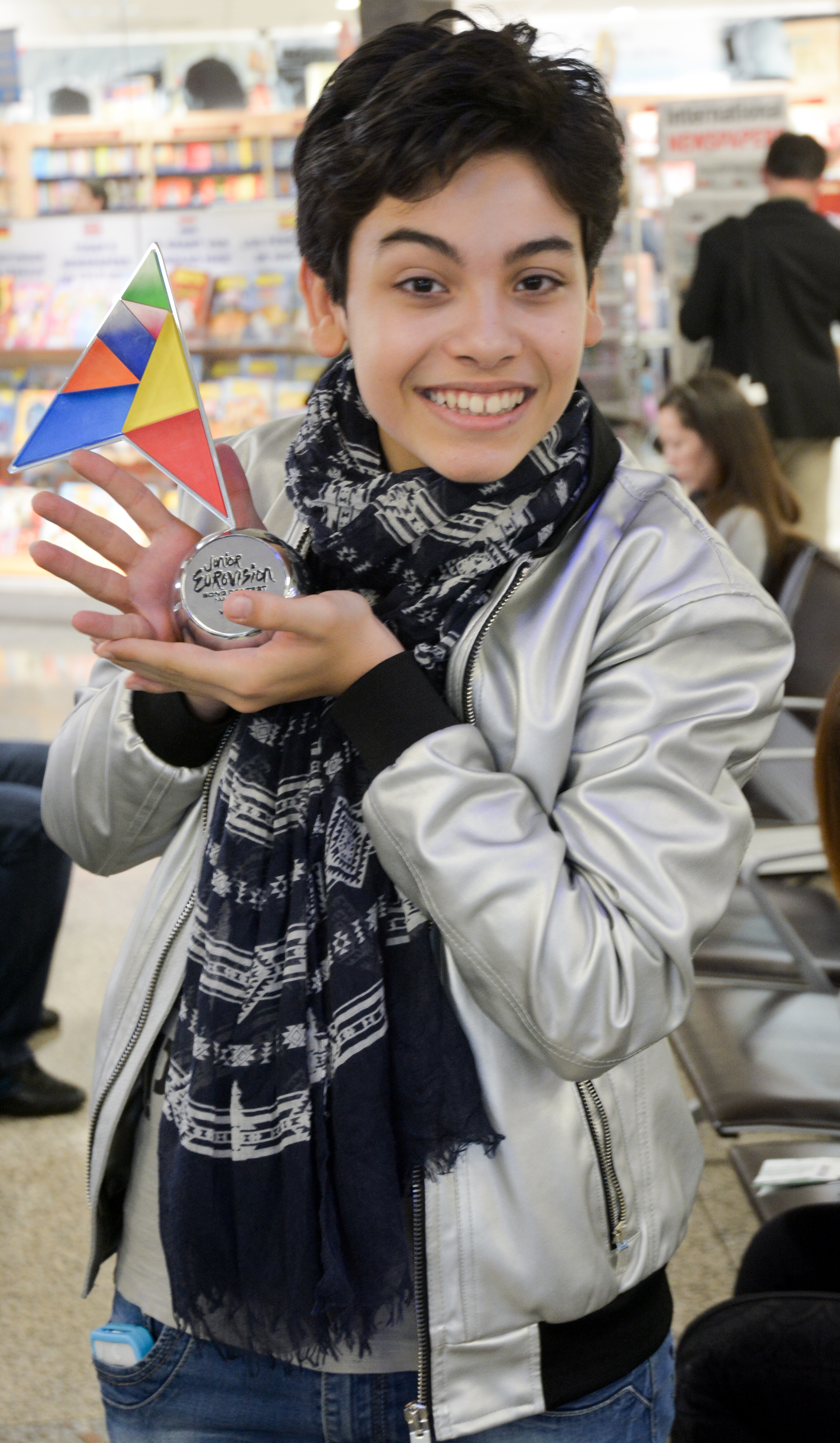 Vincenzo Cantiello (JESC 2014 winner) before interview for